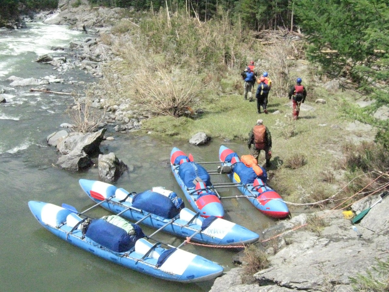 Katamarans for whitewater sport